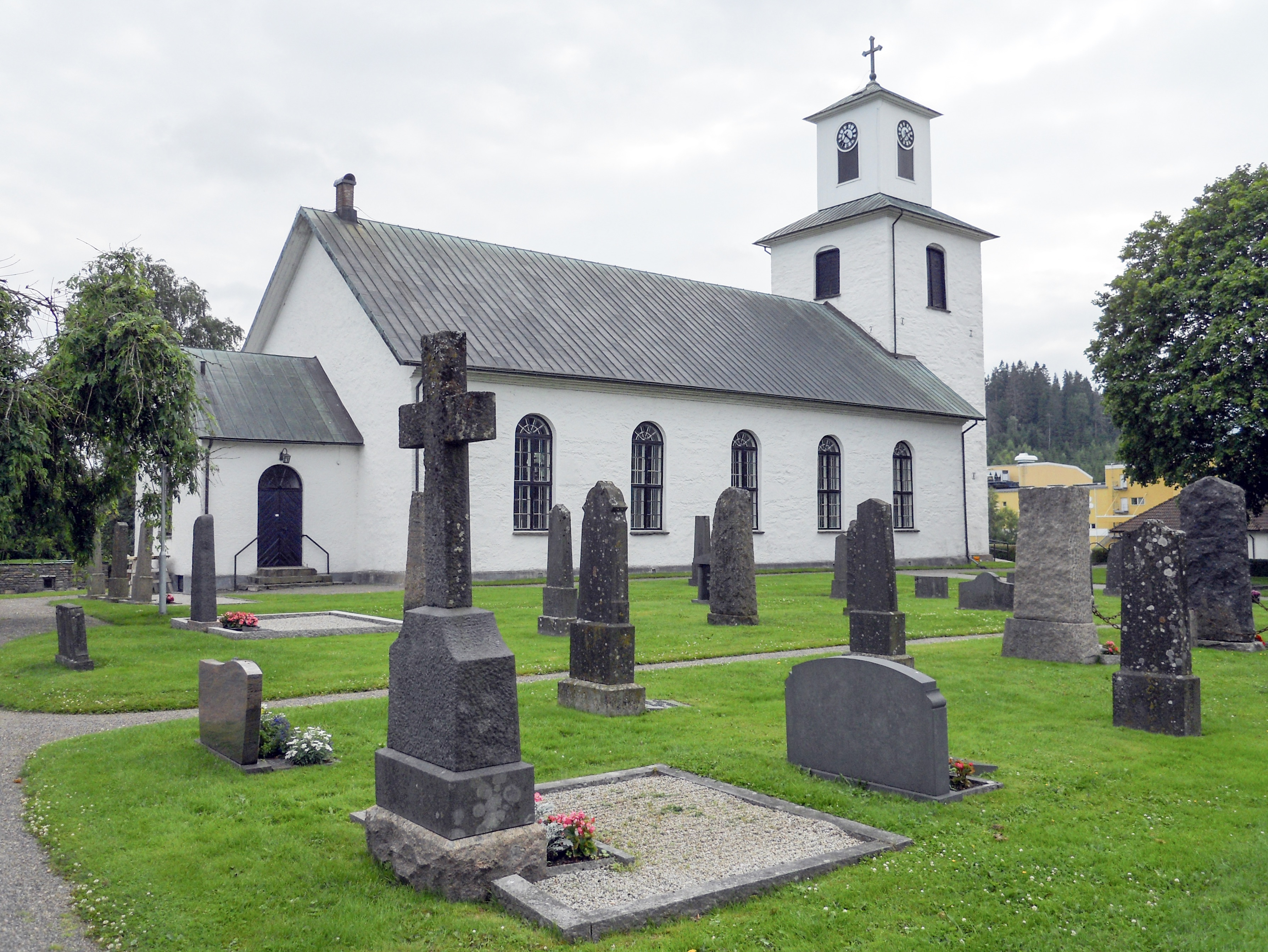 Ullared Church, Falkenberg Municipality, Sweden.